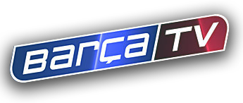 Barça TV logo,is a Spanish television channel operated by FC Barcelona.